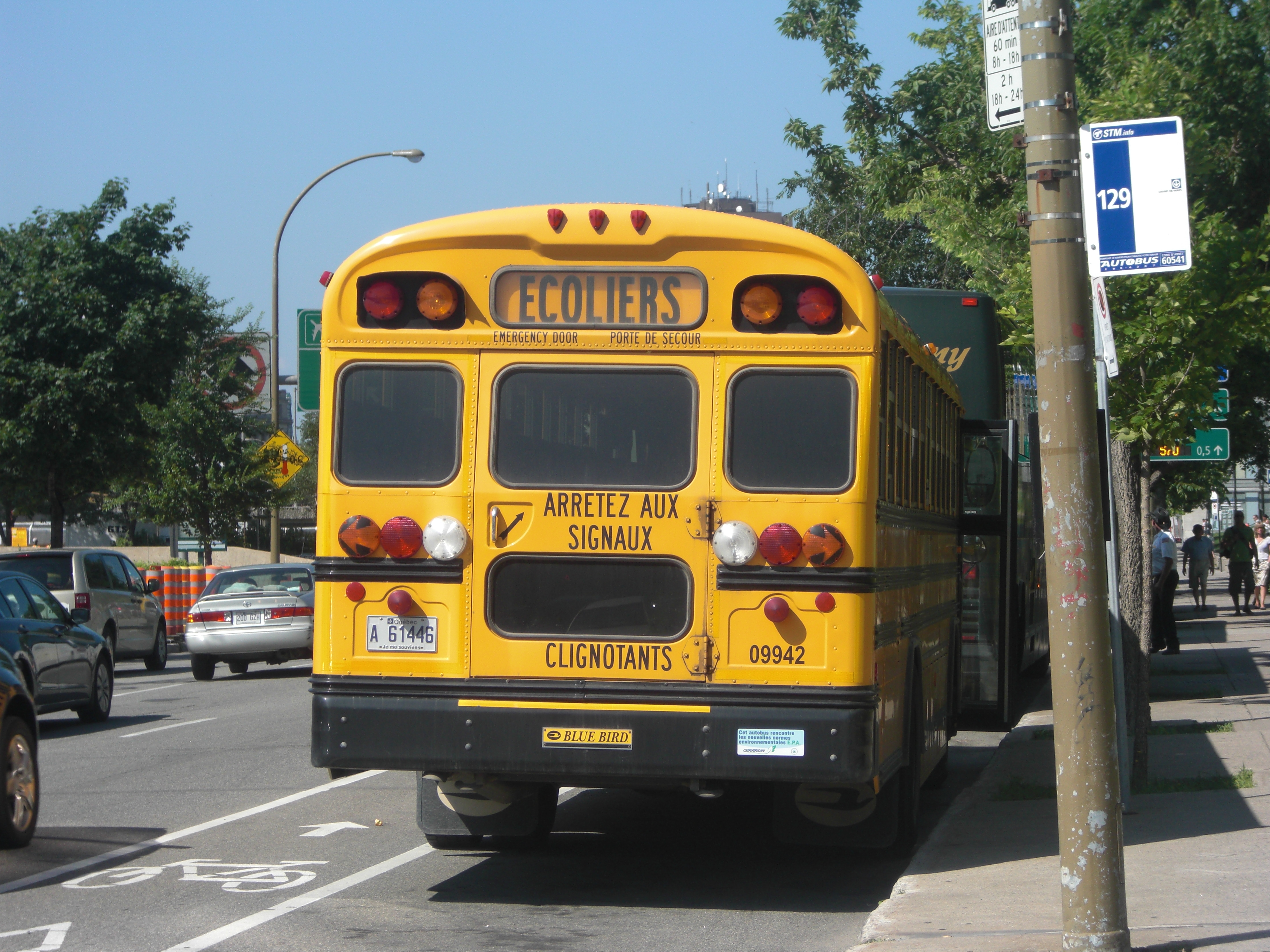 Photograph of a school bus (Blue Bird TC/3000 FE) in Montreal,Quebec showing its French-language signage. Ecoliers=Schoolchildren Arretez Aux Signaux= Stop on Signal